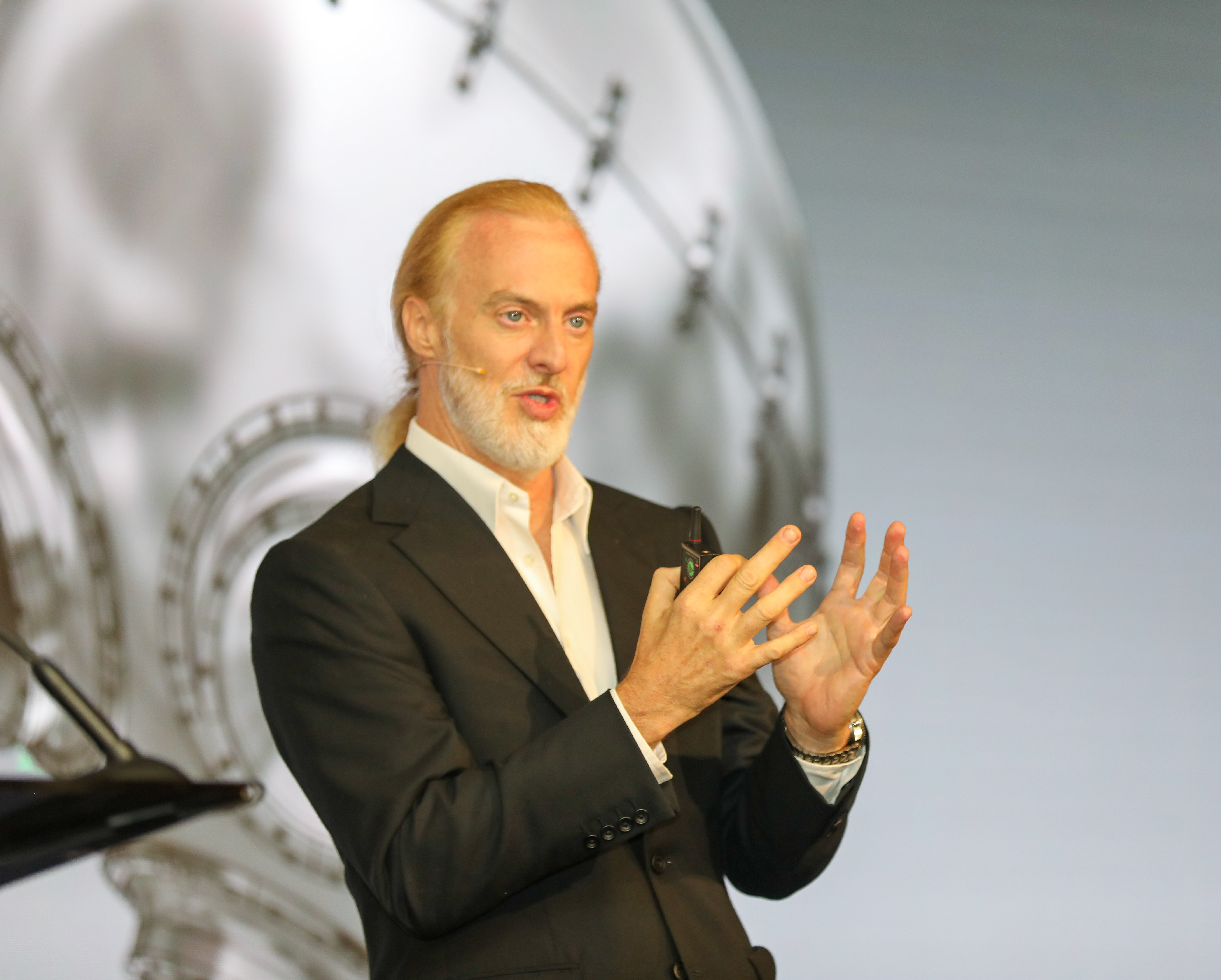 Victor Vescovo.